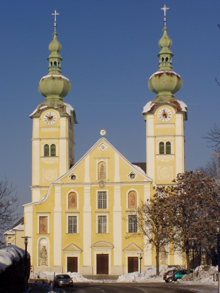 Church Maria Loreto in Sankt Andrä im Lavanttal, Carinthia, Austria